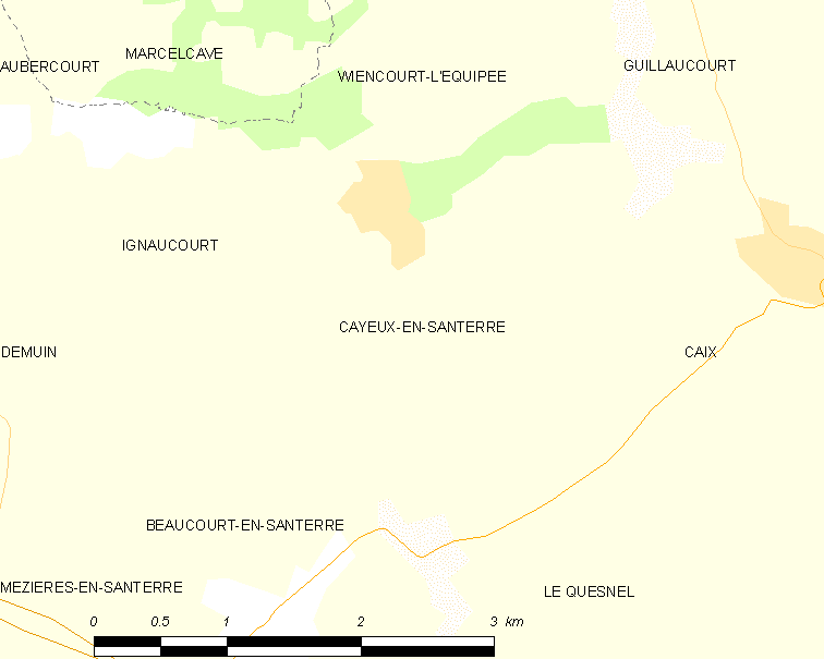 Map of French municipality Cayeux-en-Santerre